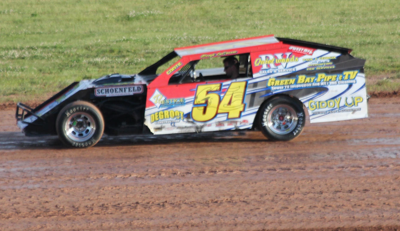 The IMCA Modified car of Benji LaCrosse, the 2005 IMCA Supernationals winner and 2006 national champion, at Luxemburg Speedway.